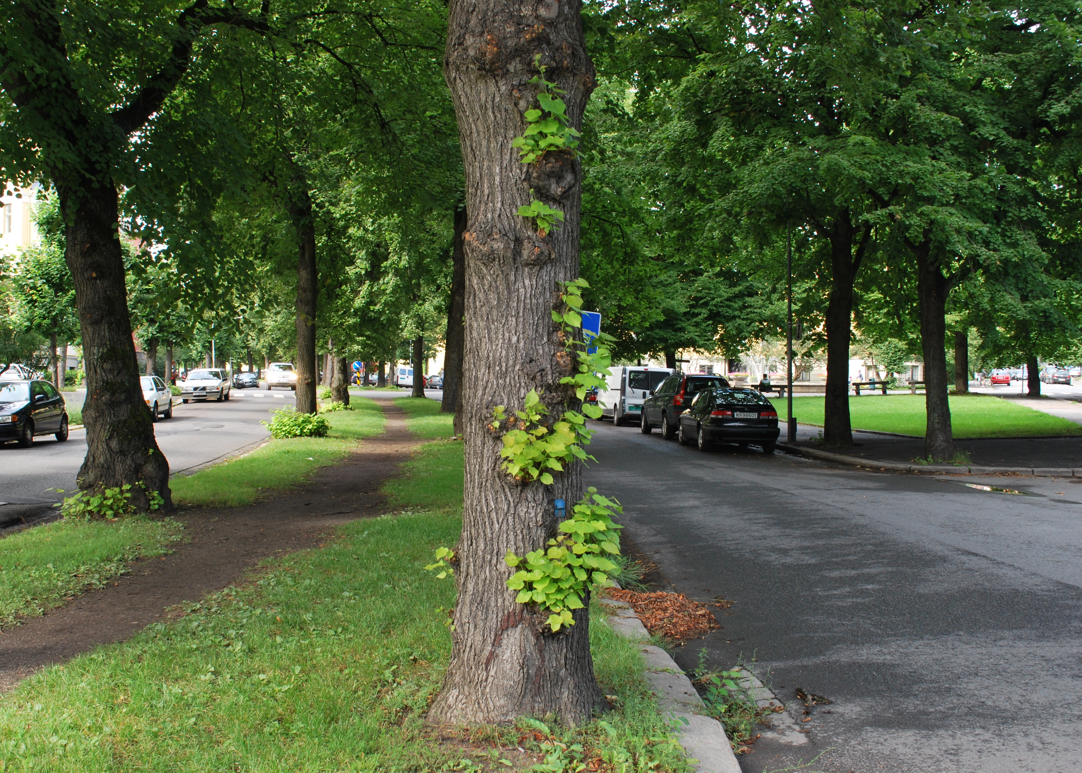 Gyldenløves strret with old riding track, by Arno Bergs square, Briskeby, Oslo